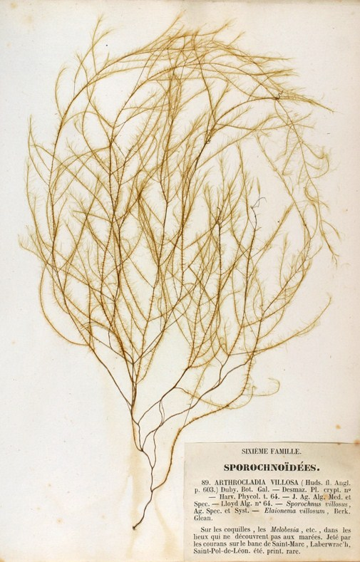 « Arthrocladia villosa » = Arthrocladia villosa